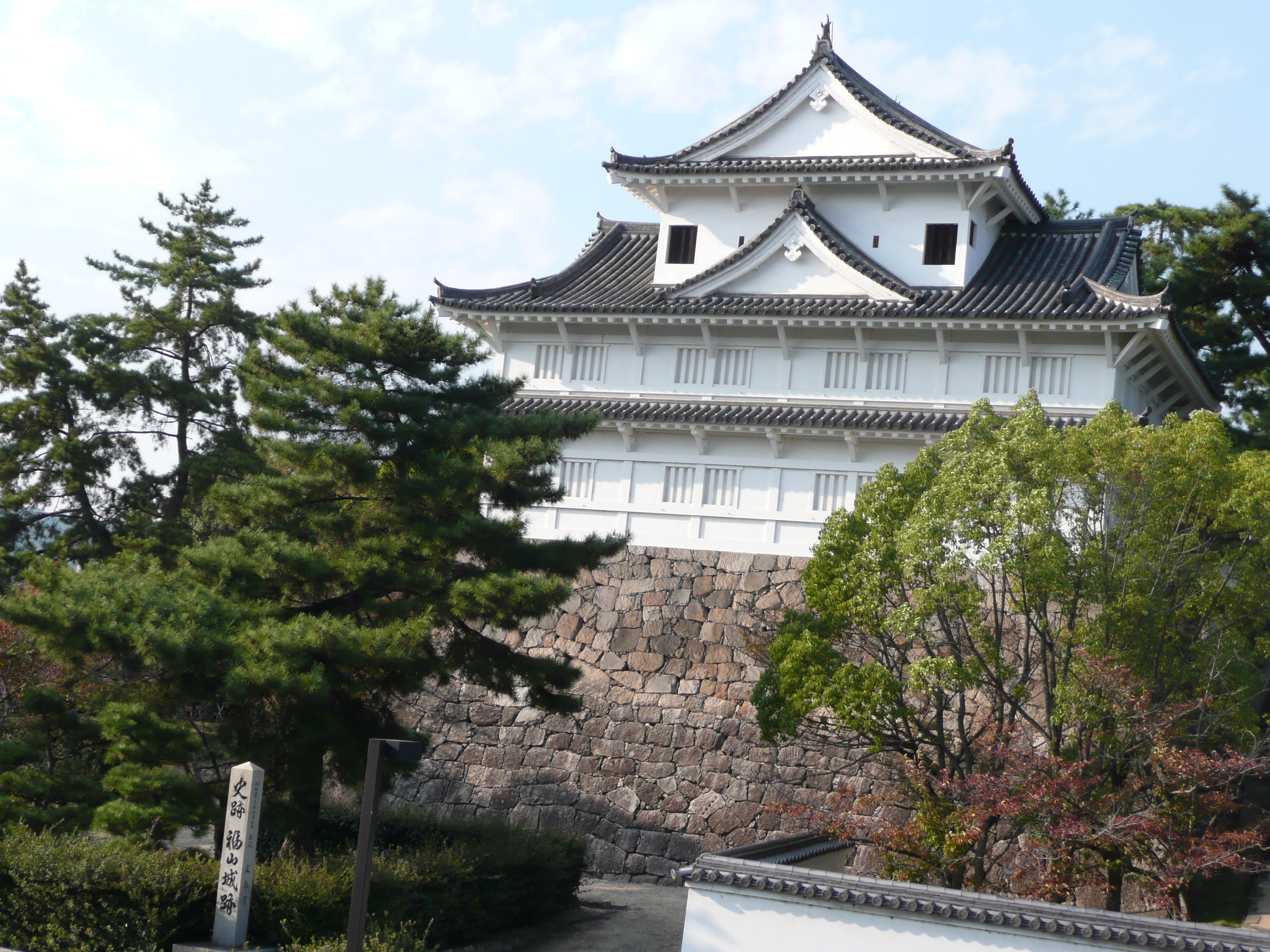 福山城の伏見櫓